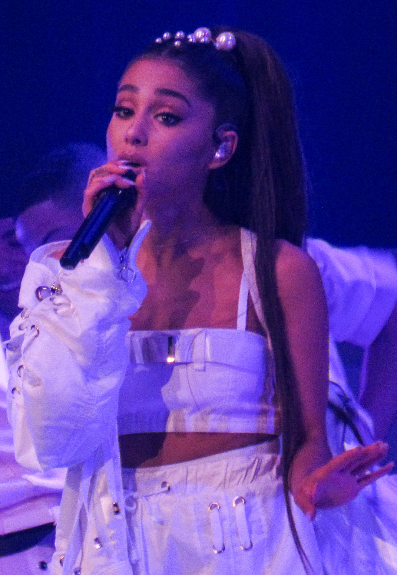 Ariana Grande performing during Dangerous Woman Tour on February 19, 2017.